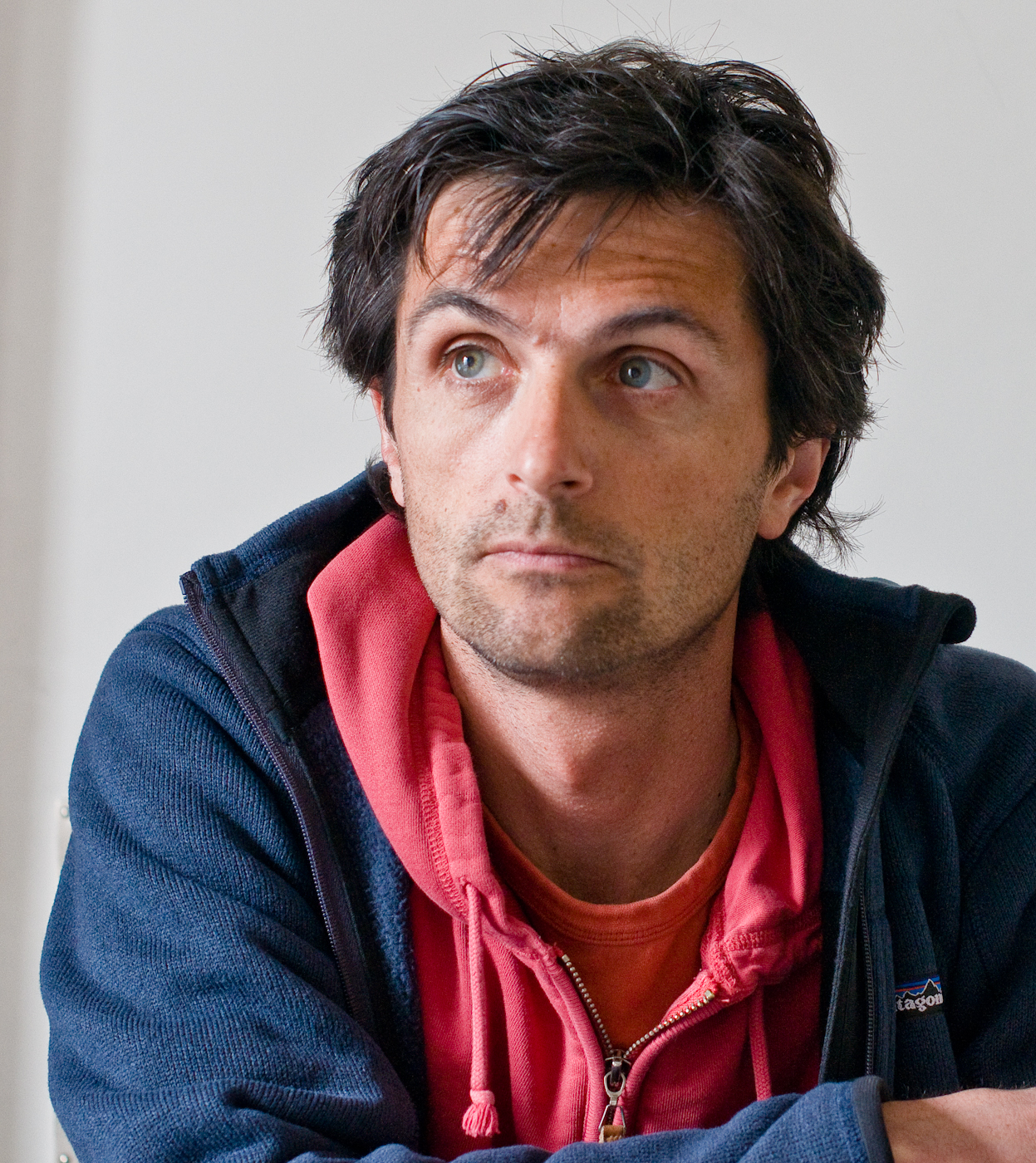 Marco Volken, Swiss Journalist and Photographer